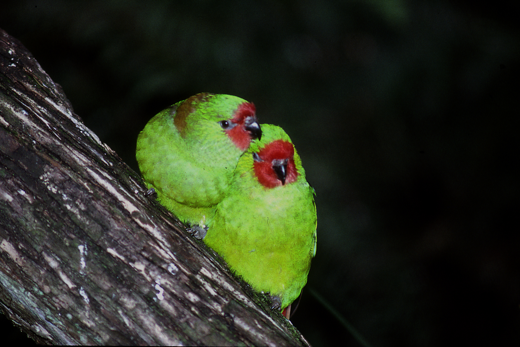 Little Lorikeets, Glossopsitta pusilla.